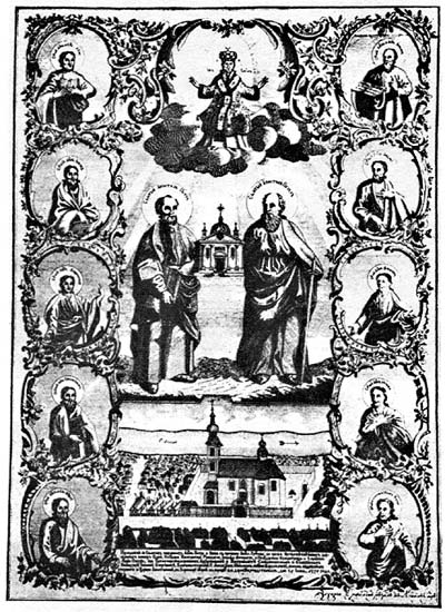 Saints Peter and Paul and the Donja crkva church in Sremski Karlovci, Serbia. Copperplate by Orfelin.